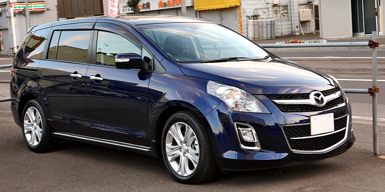 Third generation Mazda MPV ( '08 )